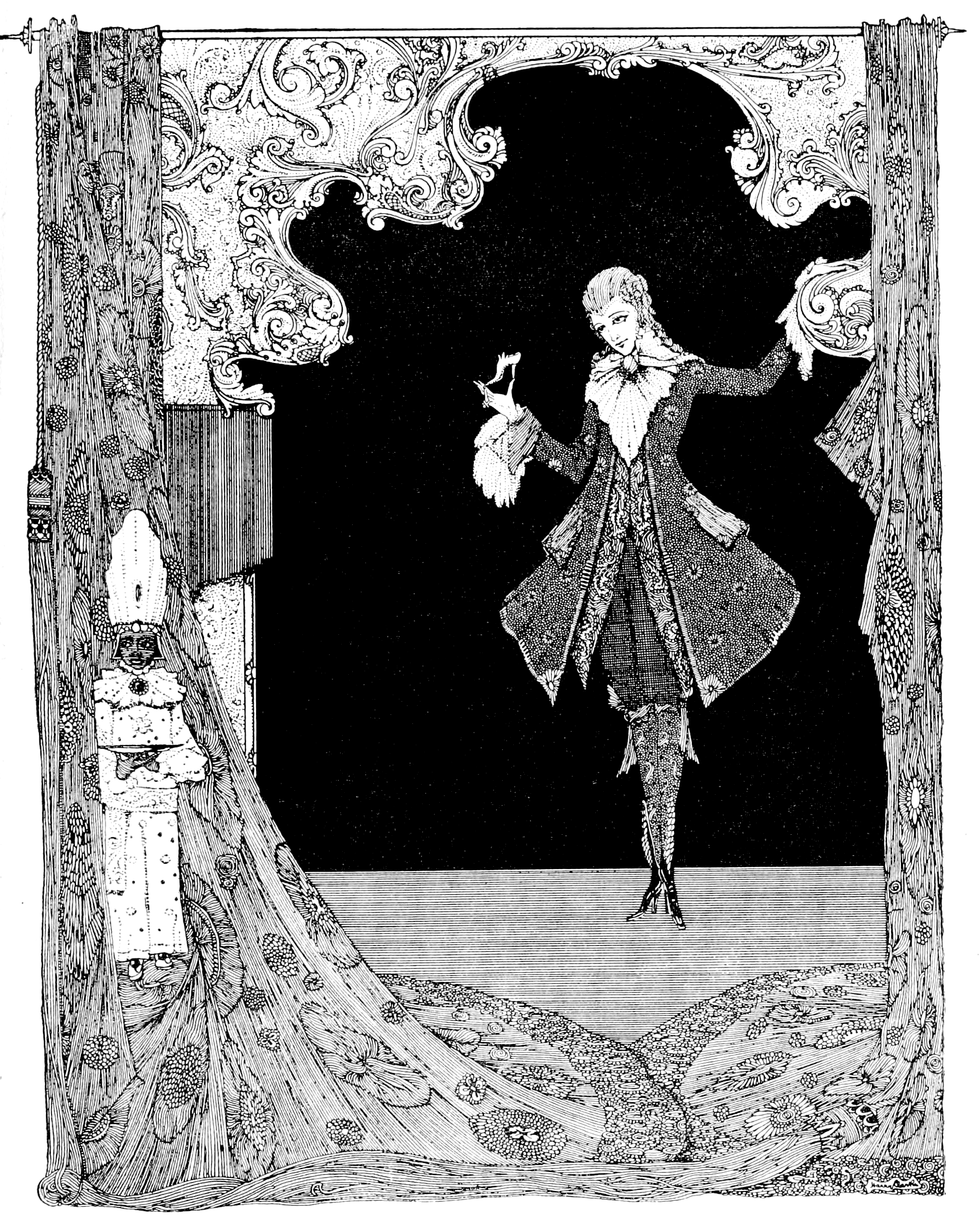 Illustration in The fairy tales of Charles Perrault Perrault, Charles, 1628-1703; Clarke, Harry, 1889-1931, illustrator. London: Harrap (1922)